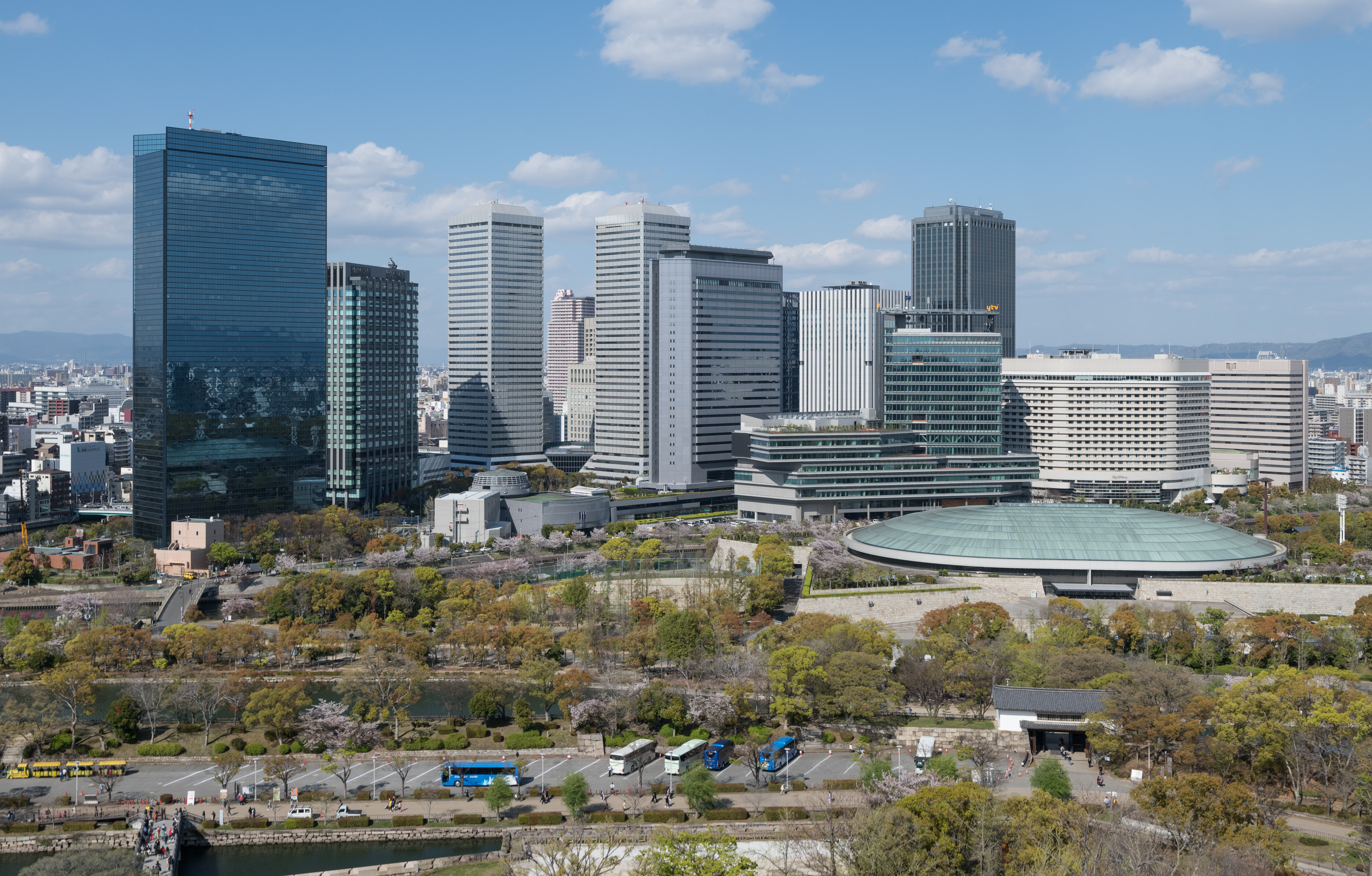 A southwest view of Osaka Business Park, as seen from the keep tower of Osaka Castle